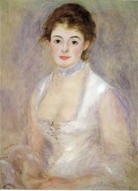 Work by Pierre-Auguste Renoir